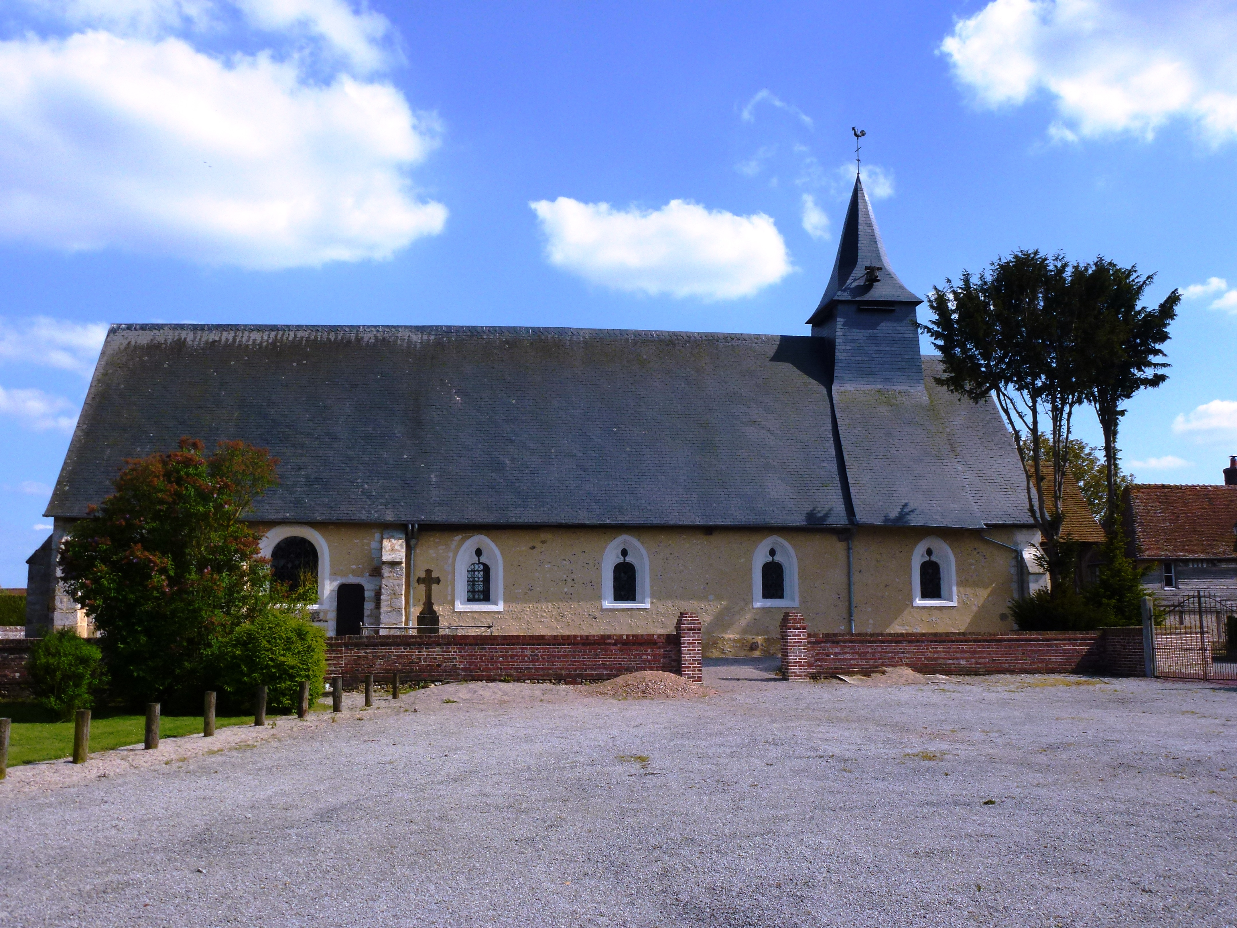 Plainville (Eure, Fr) église Saint-Saturnin